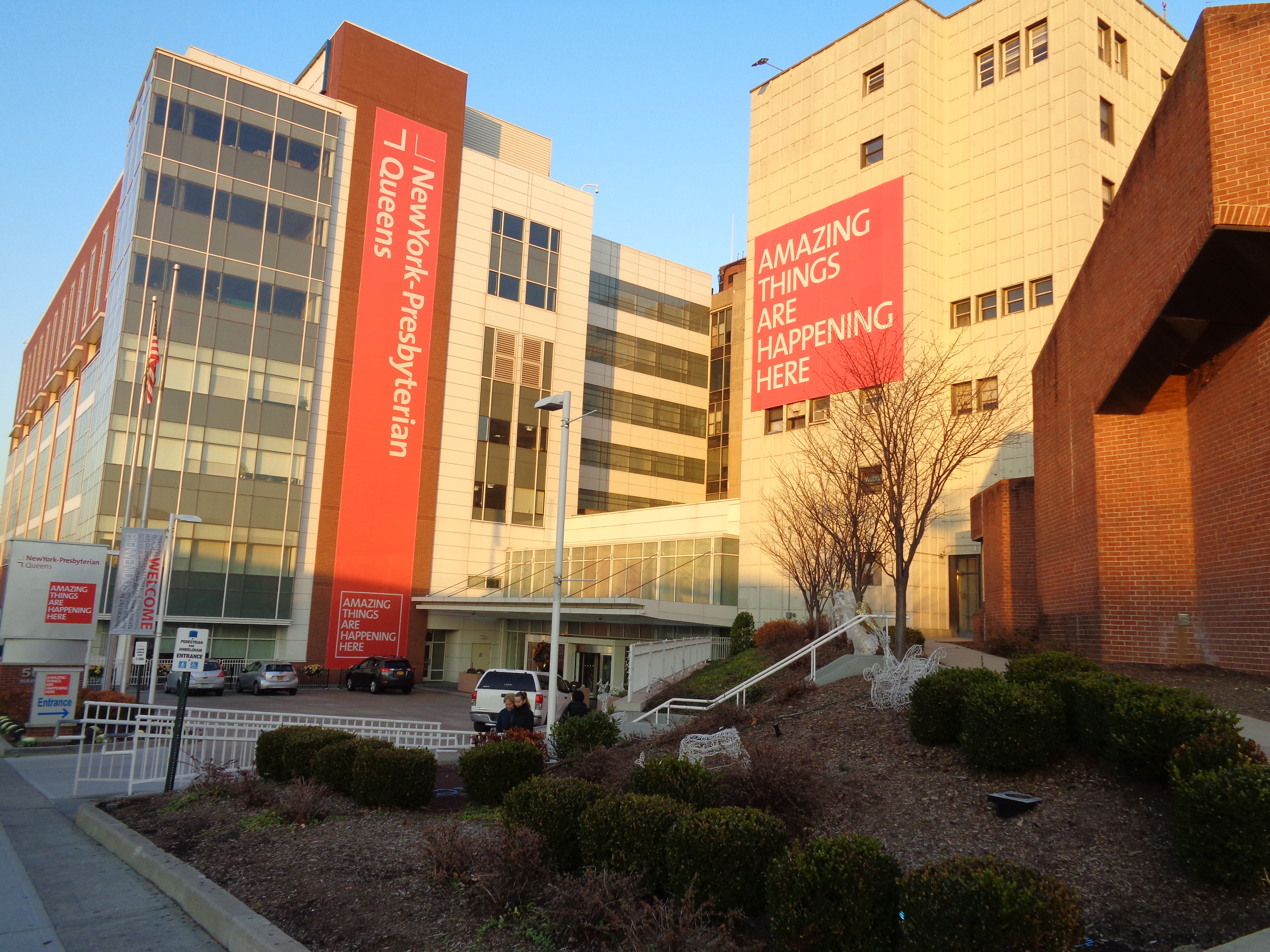 The front entrance NewYork–Presbyterian/Queens hospital in Flushing, Queens.